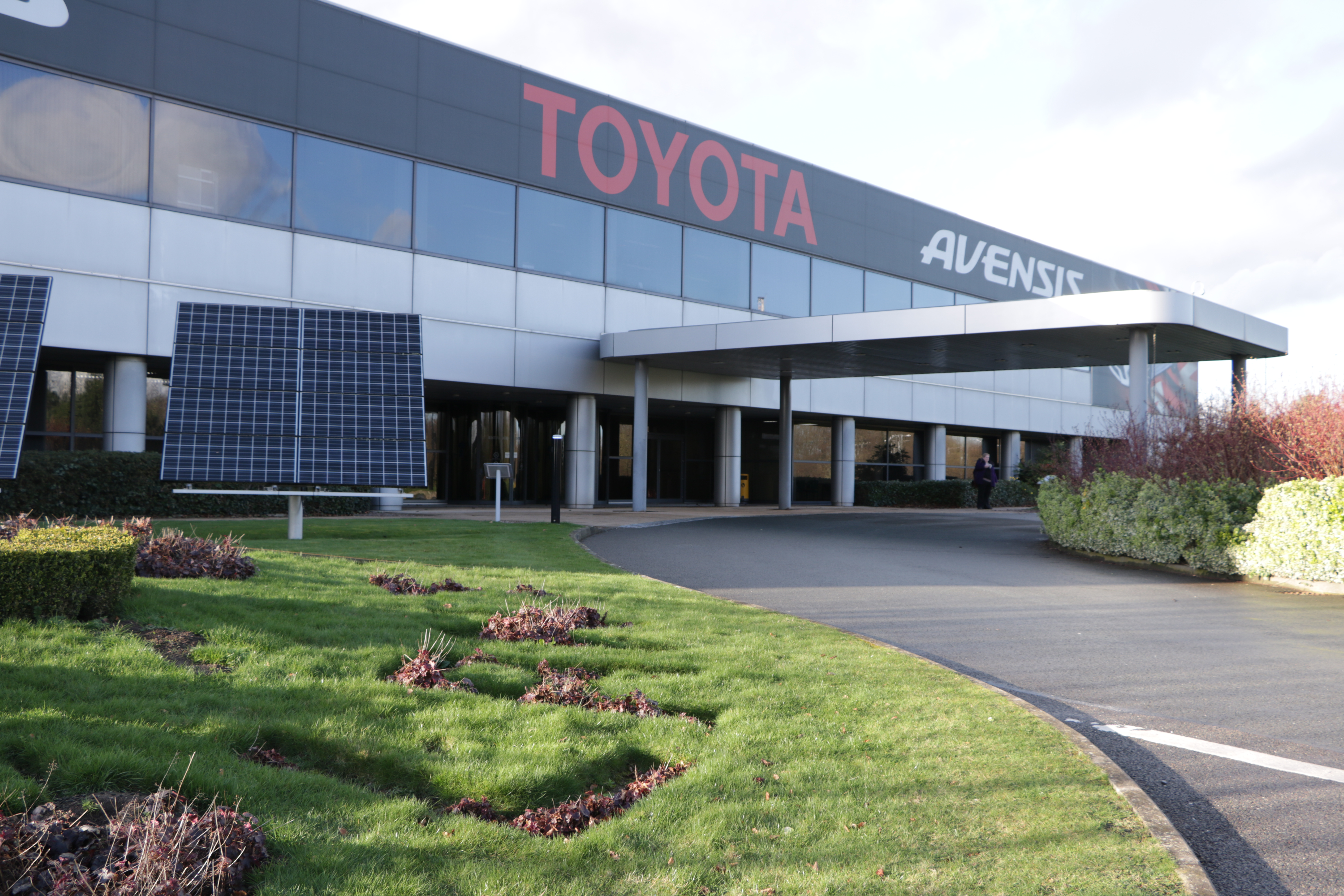 Main reception entrance to Toyota Motor Manufacturing plant at Burnaston near Derby, England. A set of three small solar panel arrays beside the entrance indicates the plant's use of renewable energy by means of its on-site 4.1MW array of over 16,500 PV units.